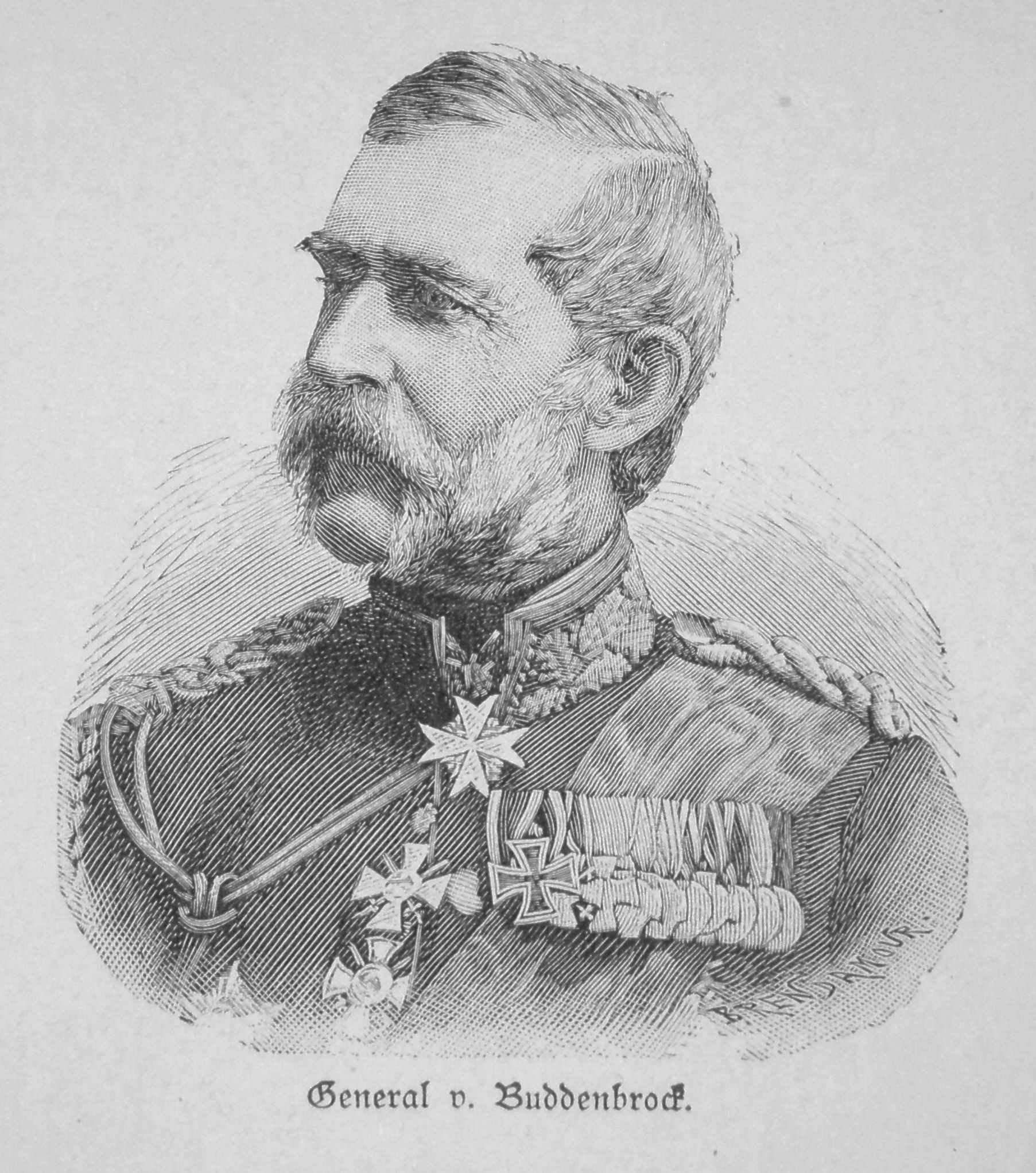 general von Buddenbrock